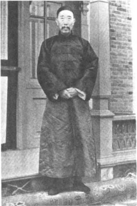 Han Chinese governor of Xinjiang Jin Shuren